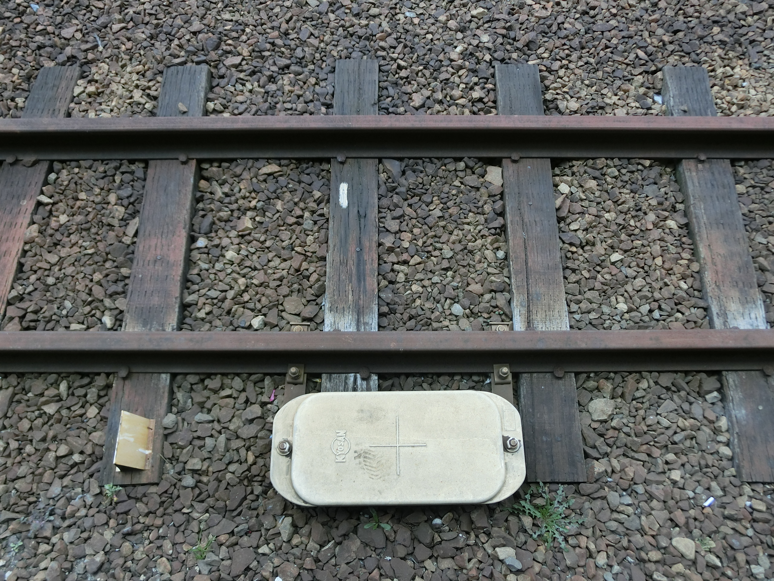 Yokkaichi Asunarou Railway ATS